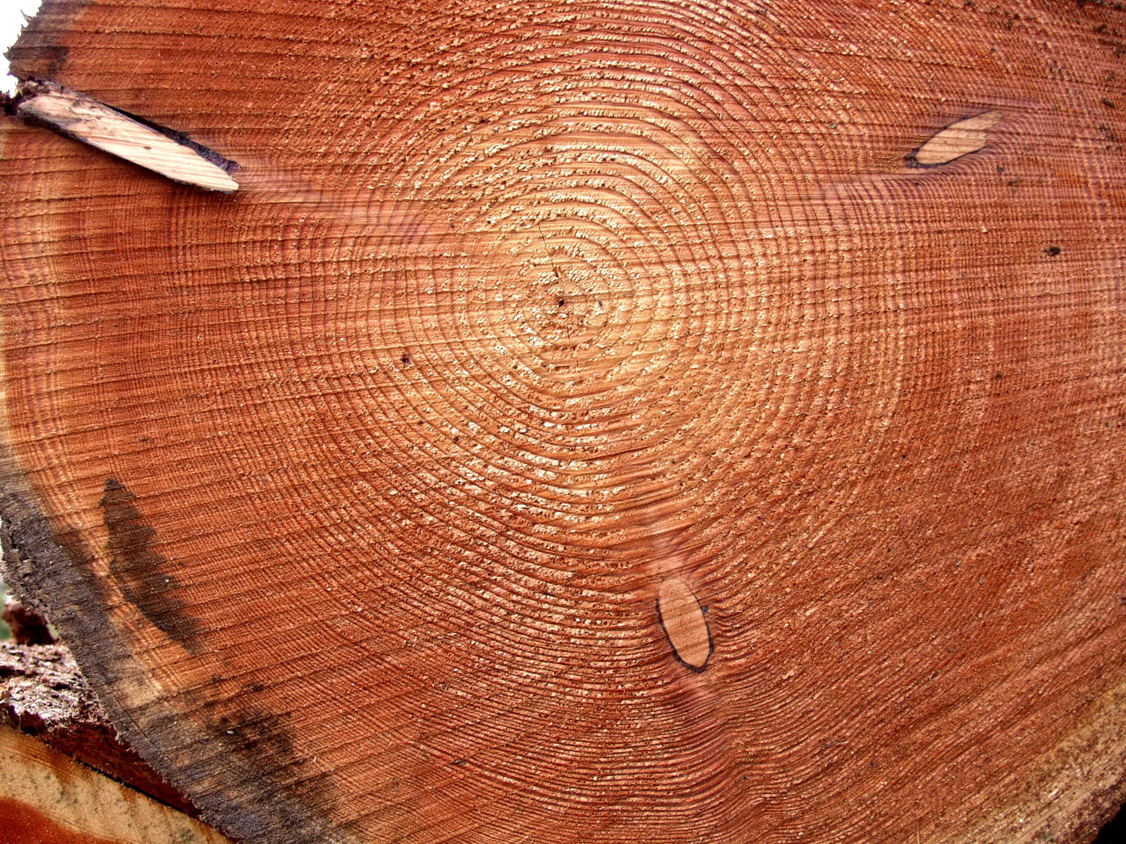 Sagittal cut of a 100 year old larch trunk